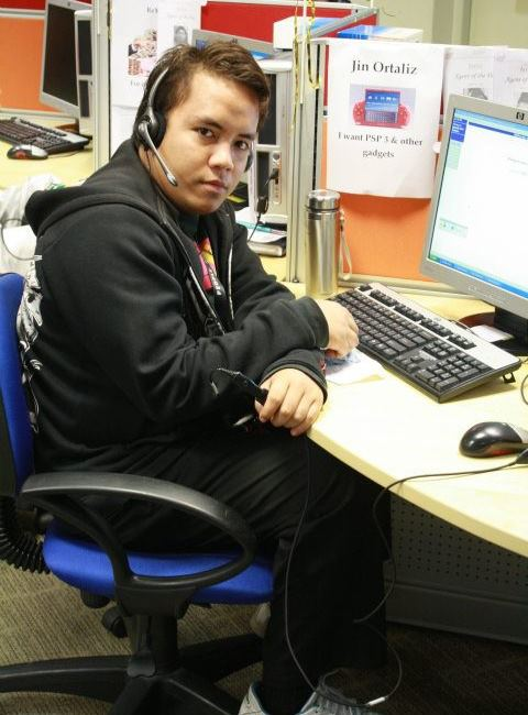 A call center agent working on his station